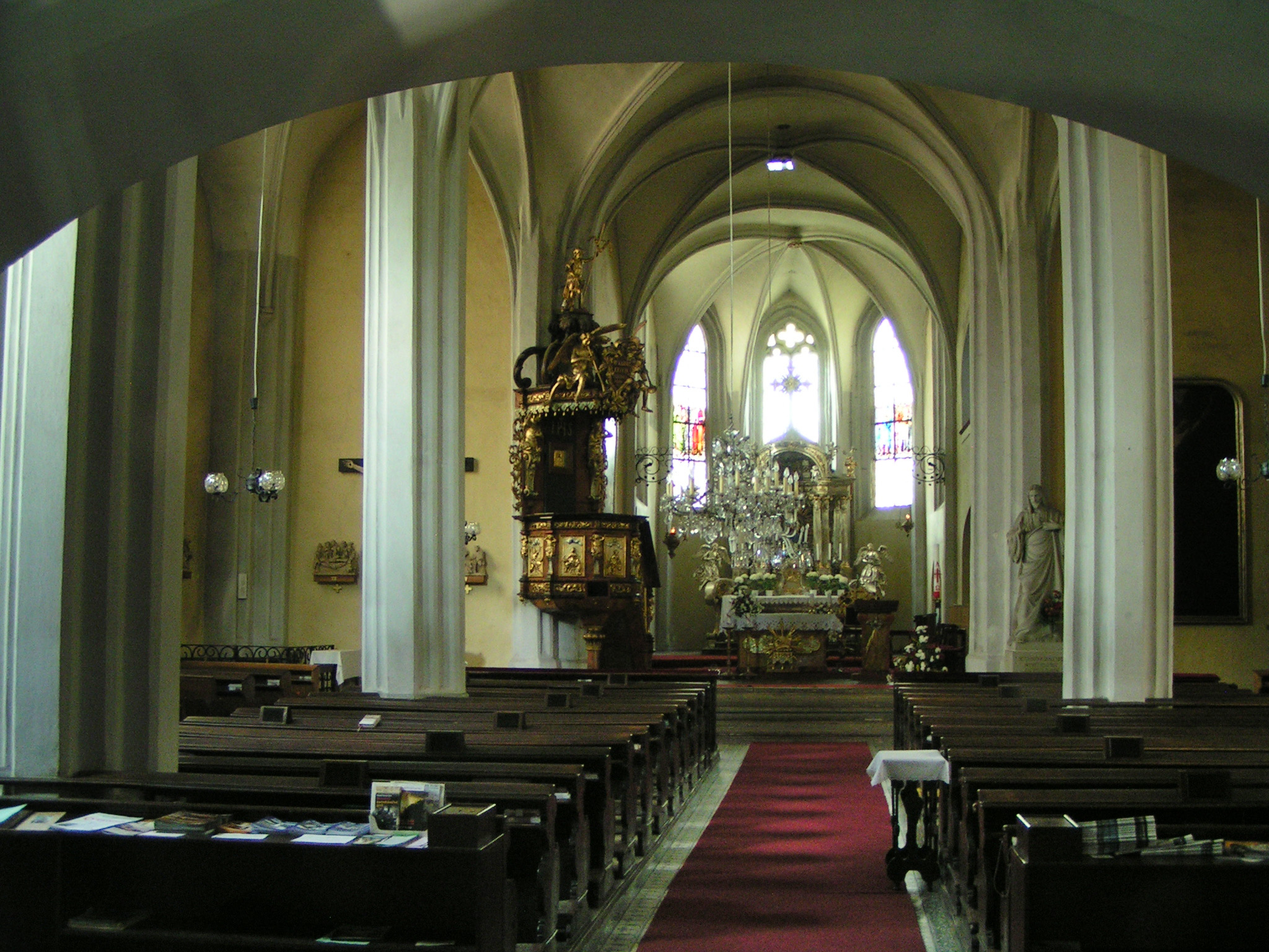 Interior of the Church of the Exaltation of the Holy Cross in Poděbrady, Czech Republic.